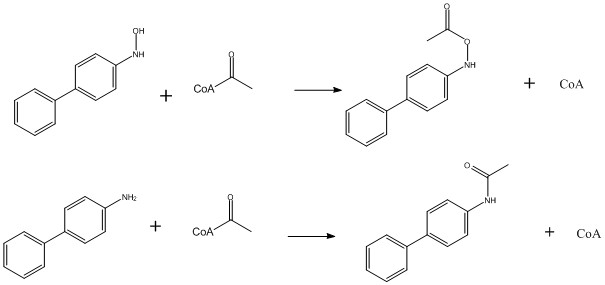 The upper reaction depicts the O-acetylation of N-hydroxy-4-aminobiphenyl and the lower reaction depicts the N-acetylation of 4-aminobiphenyl. Both reactions are catalyzed by human enzymes NAT1 and NAT2.